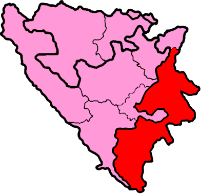 The third electoral unit of Republika Srpska (HoRBiH) shown within Bosnia and Herzegovina.